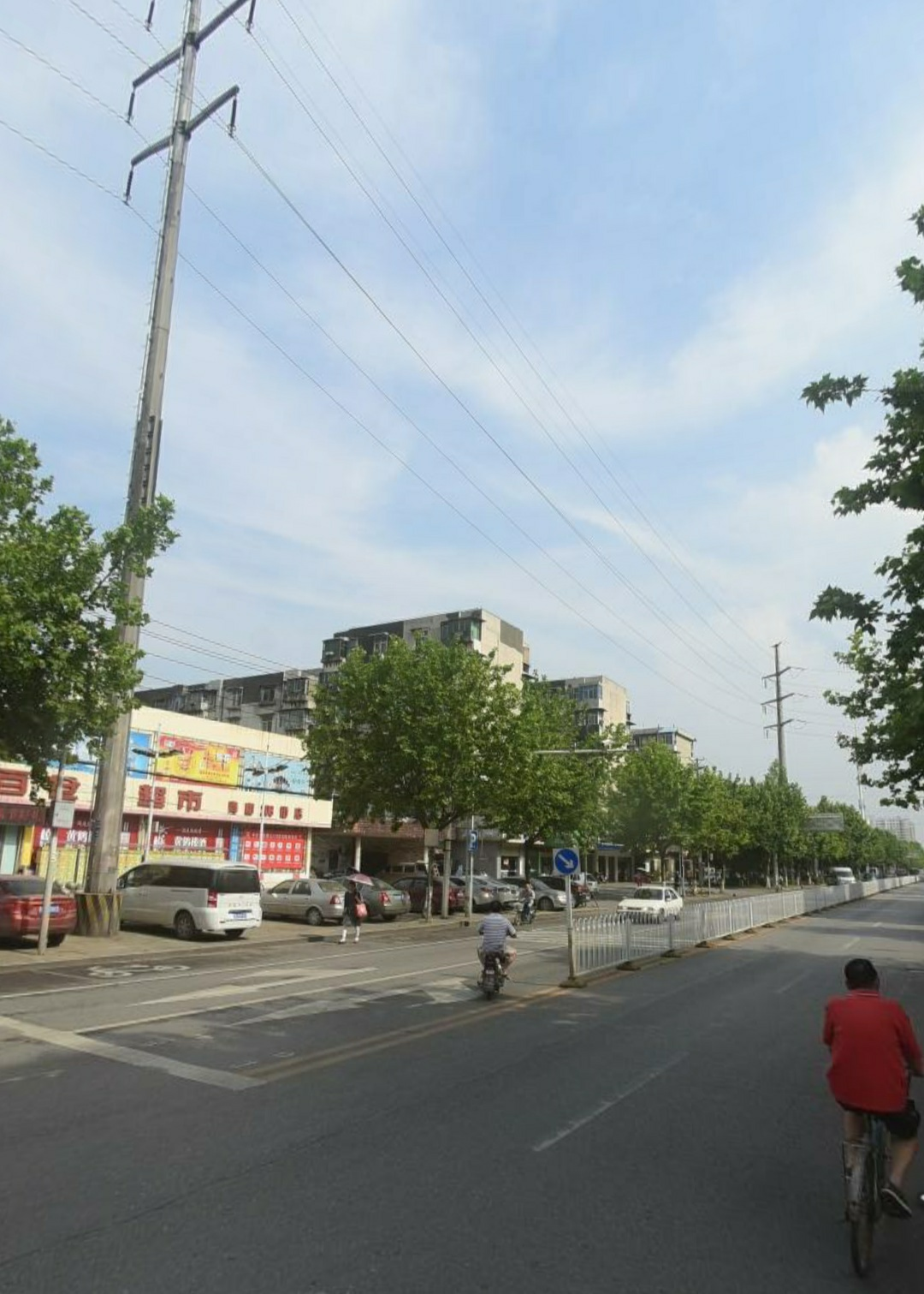 Gongye Road(2nd),Yejin Subdistrict.